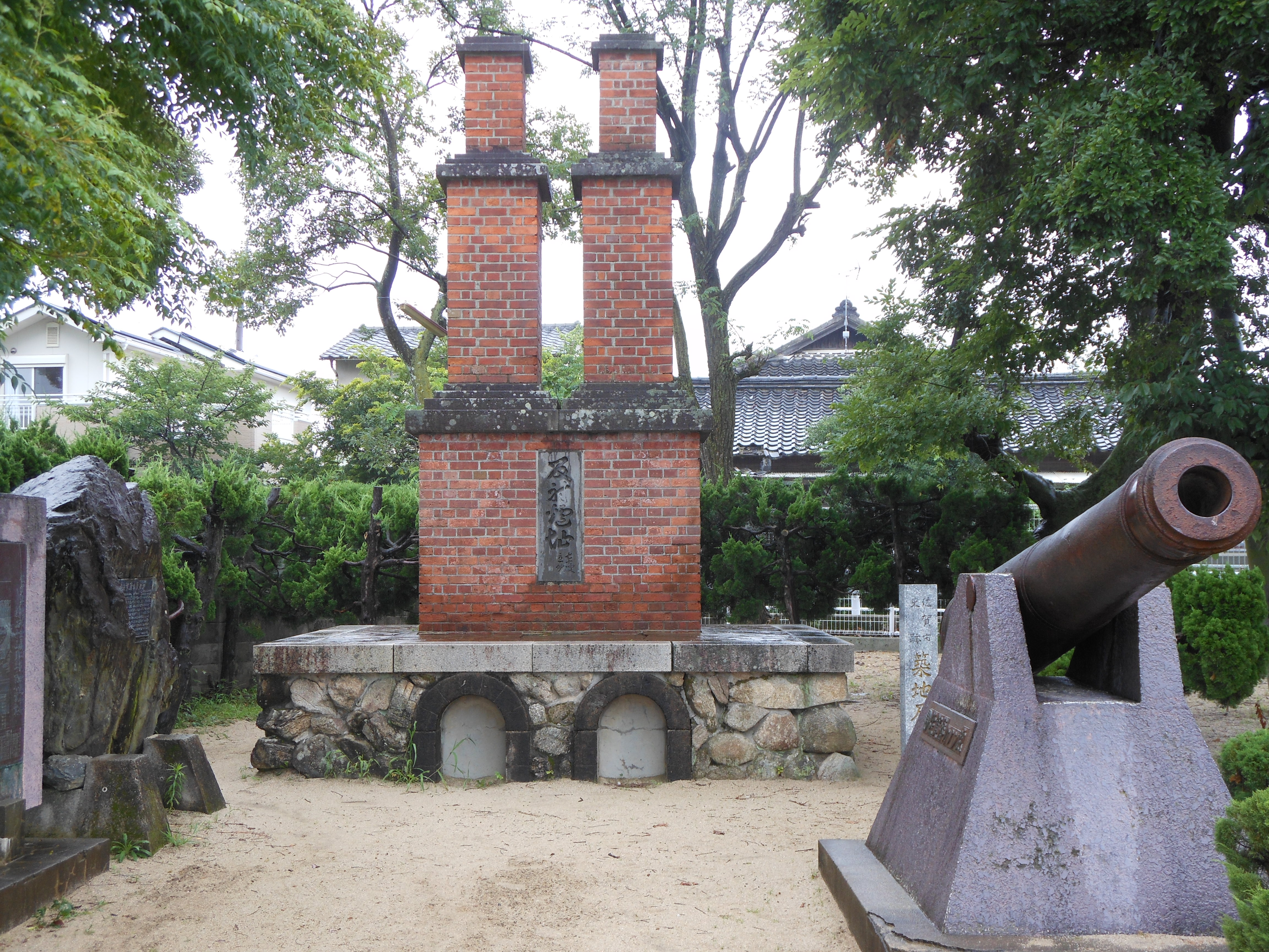 Tsuiji Reverberatory furnace(Tsuiji-Hansharo) Monument in Saga City, Saga Pref., Japan.